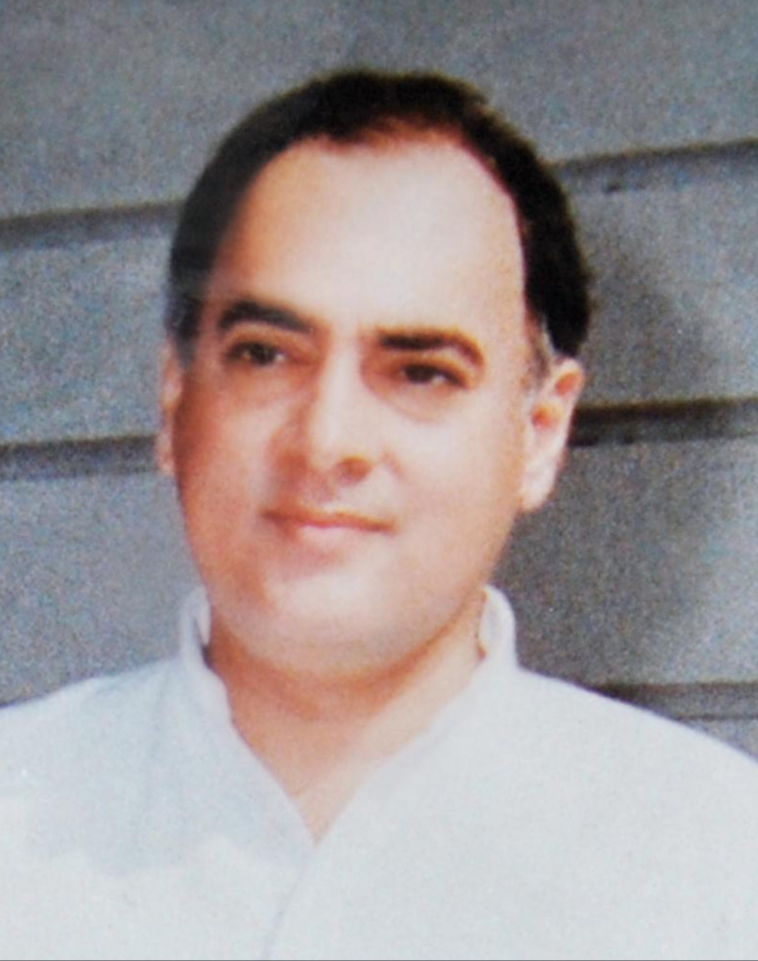 This is a cropped version of File:Pandit_Ram_Kishore_Shukla_with_Rajiv_Gandhi_at_7,_Race_course_road_in_1988.jpg